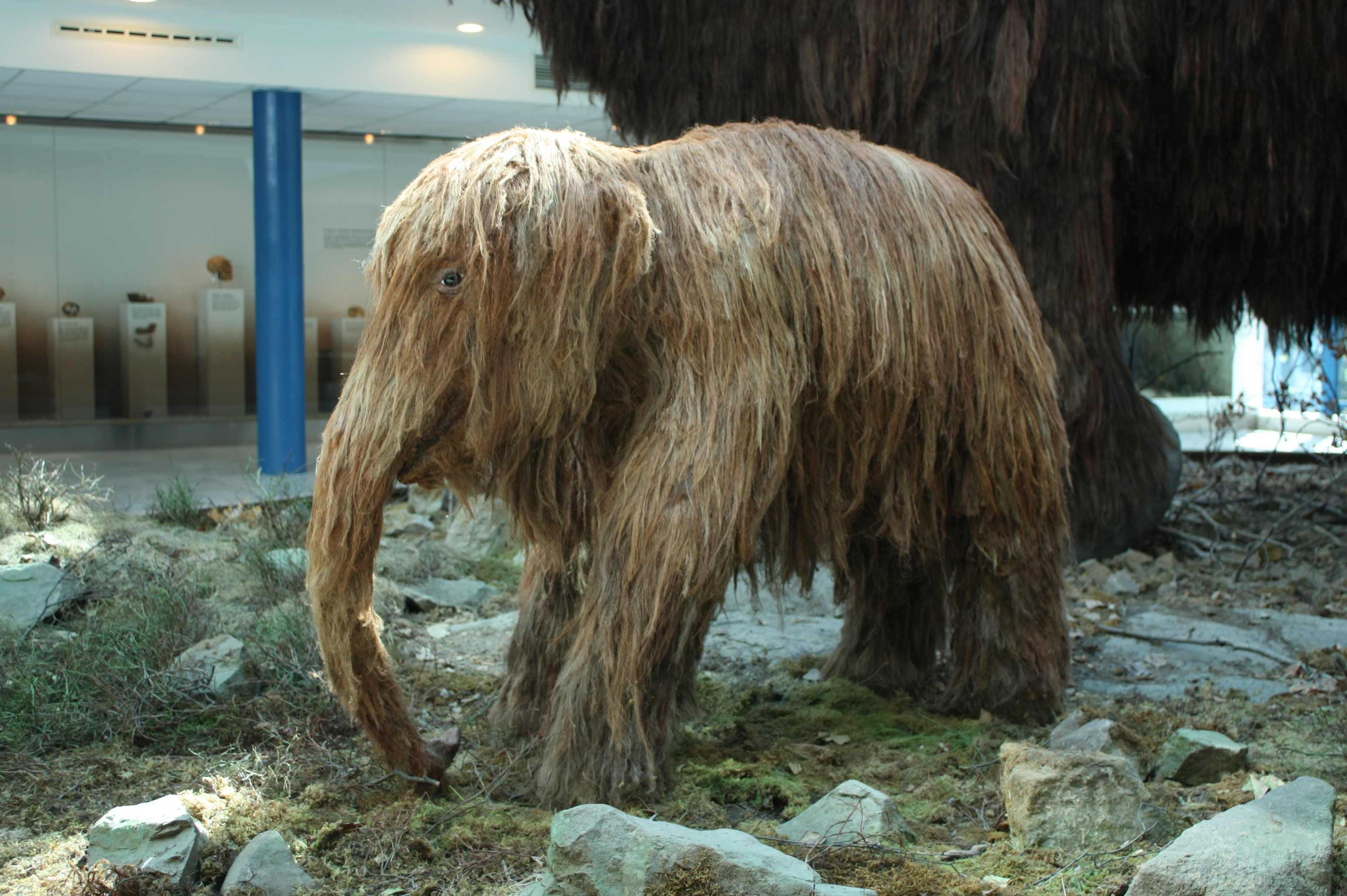 Reconstruction of a young mammoth, Anthropos museum, Brno, Czech Republic